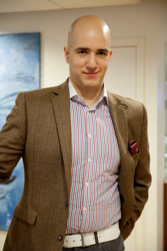 Nima Sanandaji